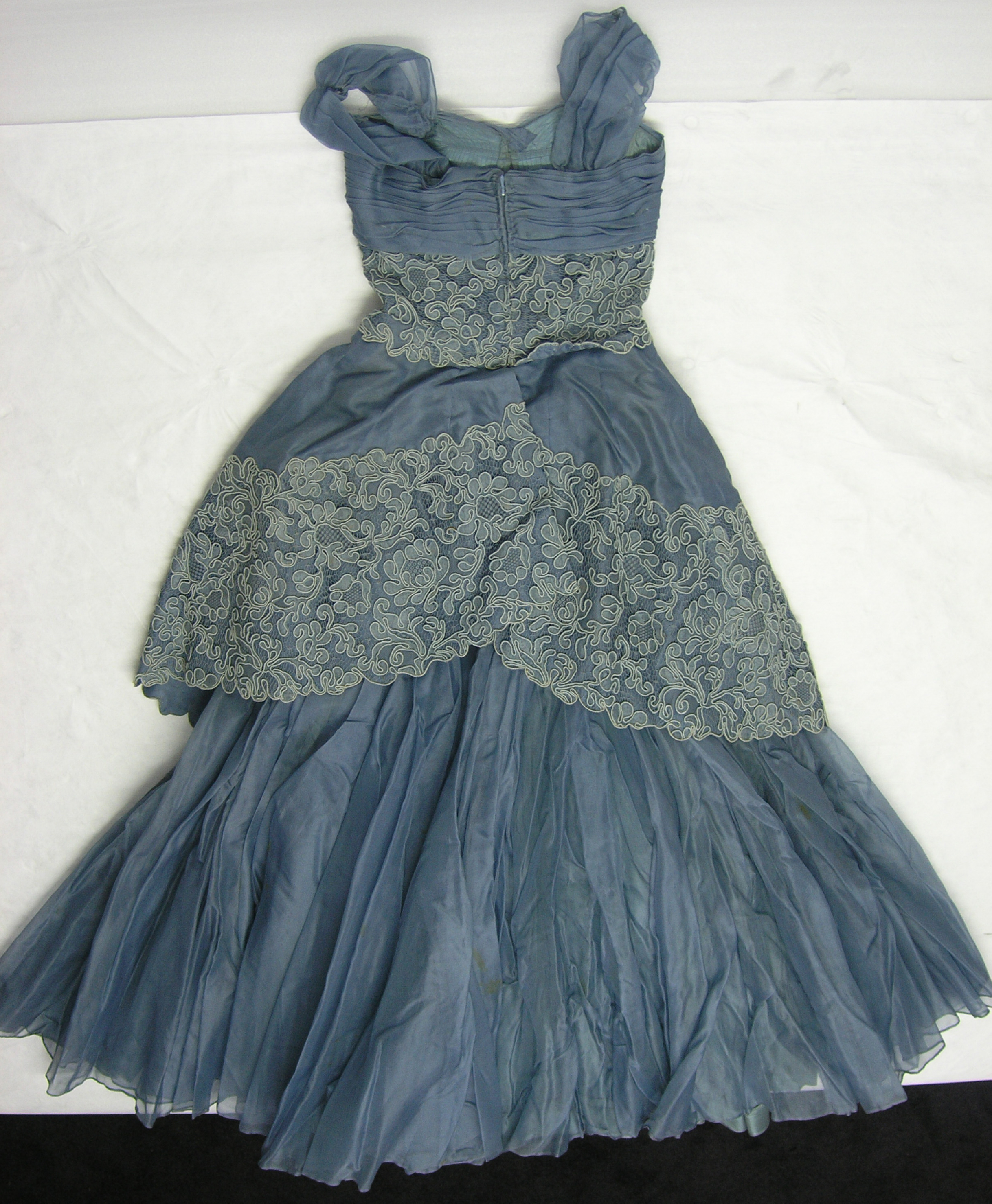 Evening dress, "c.1953. Blue grey organza and guipure lace. Shoulder straps and top of bodice swathed organza. Remainder of bodice of guipure lace. Peplum of organza edged with guipure lace border. Very full skirt." “GAUZE AND LACE EVENING DRESS slate blue synthetic gauze and heavily overstitched lace. Tight boned bodice of lace with gauze swathed around top and swathed shoulder straps – back fastening with hooks and zip – heavily fitted linings. Very full gauze skirt with ¾ flounce with deep lace (as above) flounce. 1) synthetic silk underskirt stiffened at hem – 2) synthetic white net stiffened underskirt – all very full.”